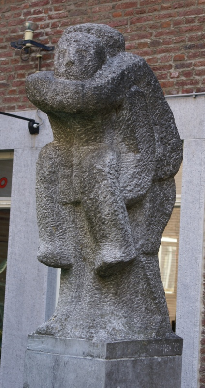 "Ruiterspel" - Ruiterij, Maastricht, The Netherlands. By Gene Eggen, 1982.